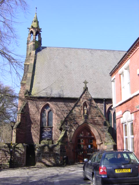 Our Lady Immaculate and St Joseph, Prescot. To the west of Prescot Parish church at the end of Vicarage Place is Our Lady Immaculate and St Joseph, an attractive Victorian R.C. church in gothic style, built in red sandstone in 1856 by Joseph Hansom who invented the Hansom cab.